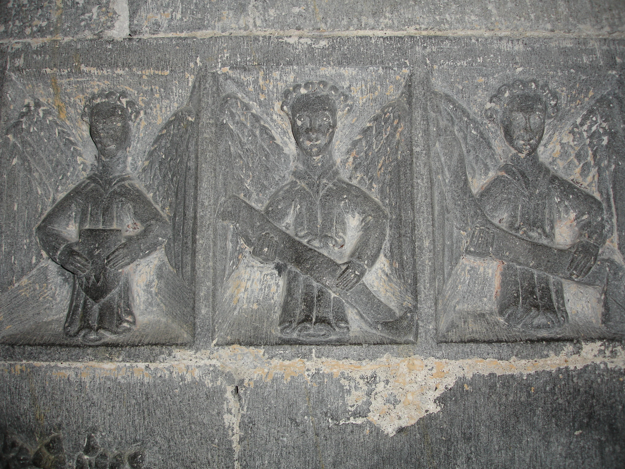 Clonfert Cathedral, Co. Galway, Ireland: Detail aus dem Inneren: Engel